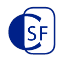 The Official Logo of the Christian Student Fellowship at the University of Kentucky.